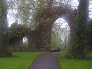 Entrance arch of the Black Castle in the town park in April 2006.